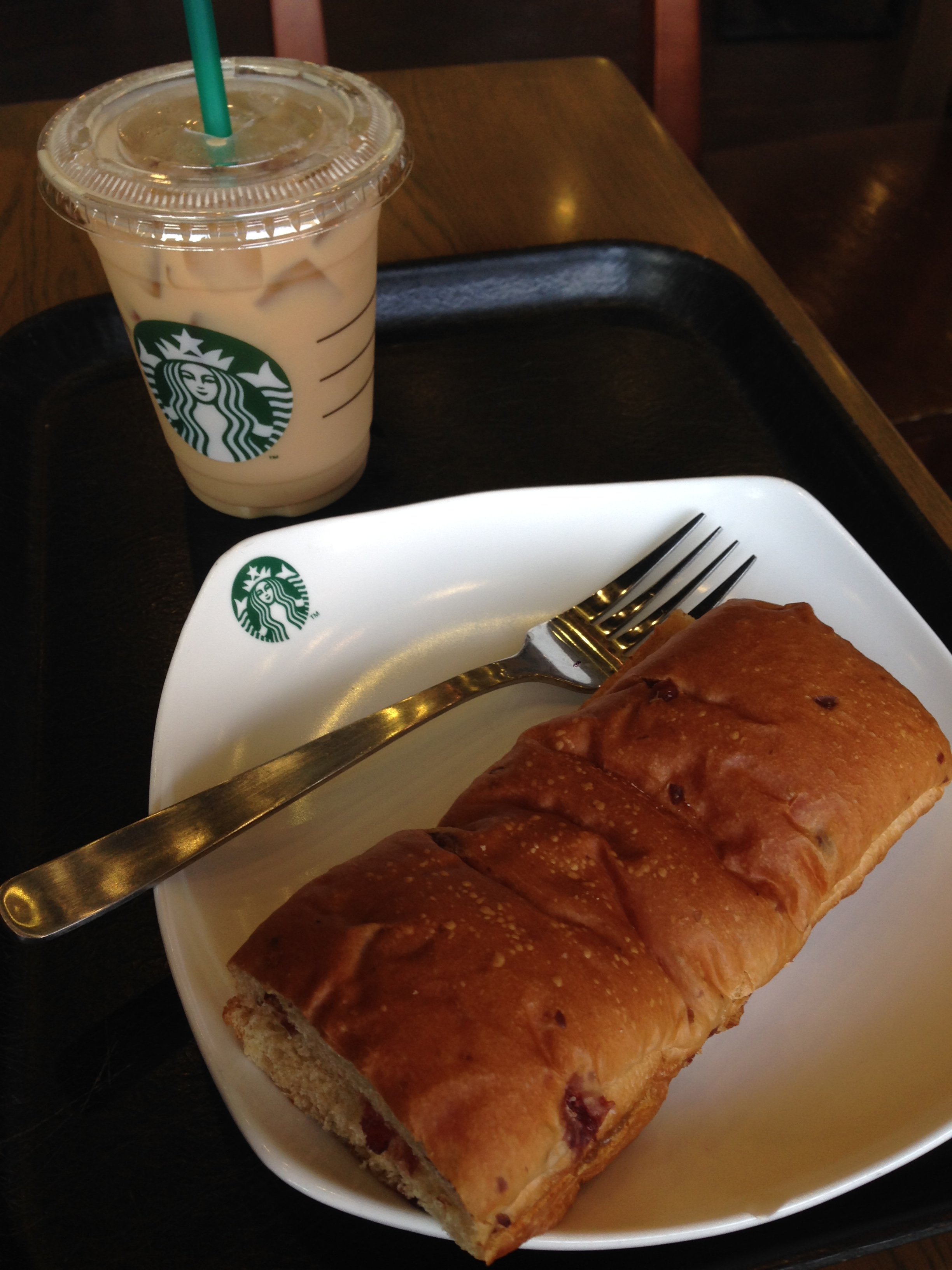 A cranberry bun with kaya (a coconut and egg jam) made with coffee, together with an iced latte from Starbucks Coffee in Plaza Singapura, Singapore.